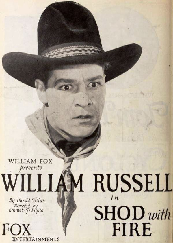 Advertisement for the American western film Shod with Fire (1920) with William Russell, on page 8 of the February 14, 1920 Exhibitors Herald.